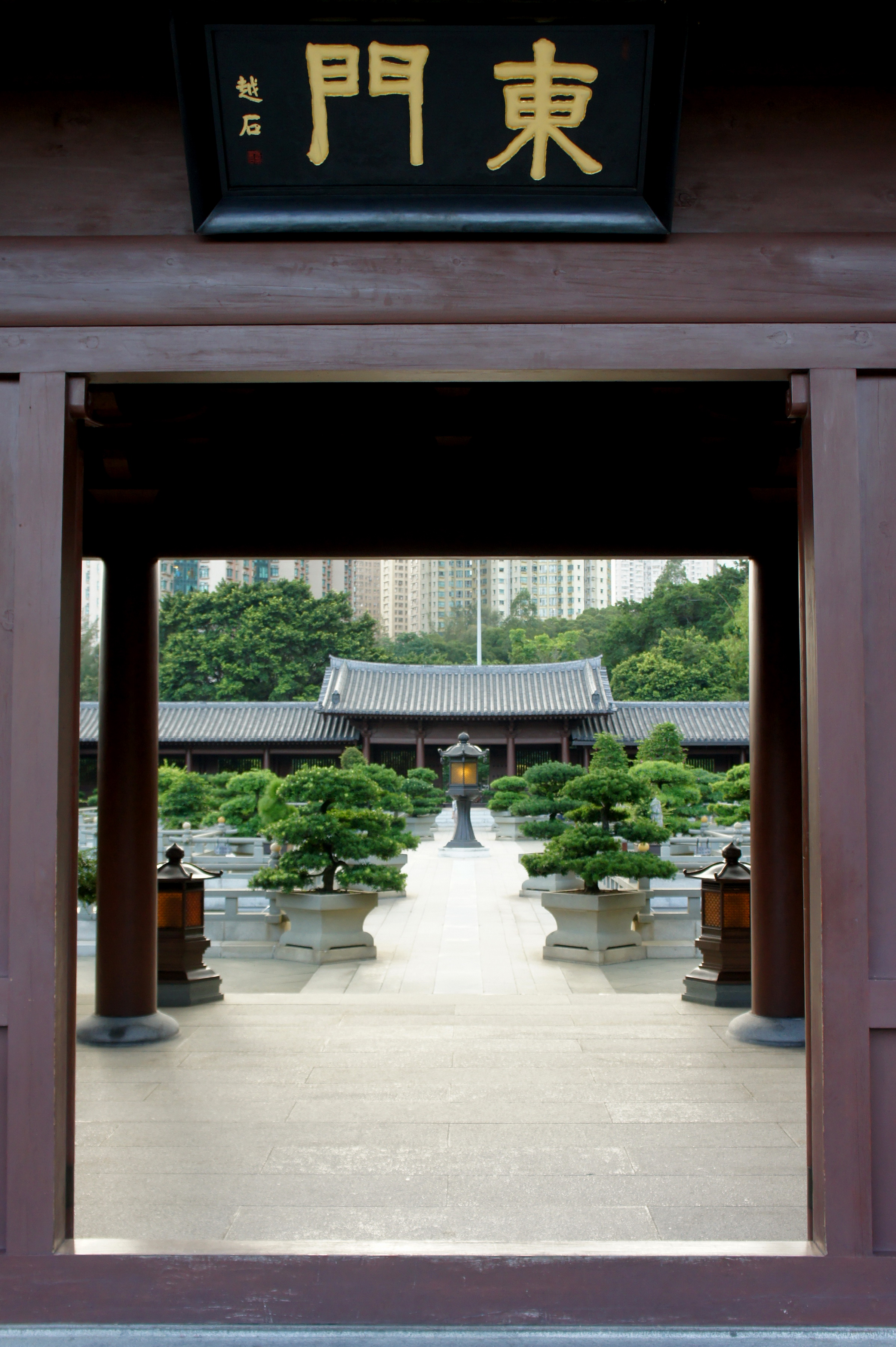 Looking into the courtyard through the East Gate, Chi Lin Nunnery, Kowloon, Hong Kong.